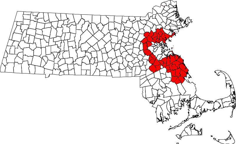 I created this file myself using an image from the massachusetts government website. It is completely in the public domain.